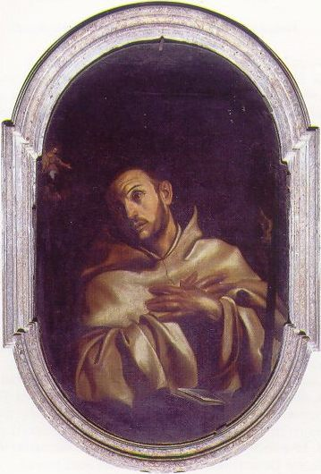 Painting of Jean-Baptiste de la Barrière (1544-1600) founder of the Cistercians 'Feuillants'. Found in the church of St Bernard, in Rome, where de la Barrière died.